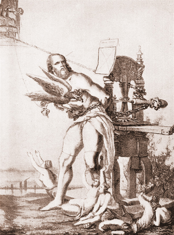 Political cartoon showing Karl Marx as Prometheus, chained to a printing press while the eagle of Prussian censorship rips out his liver as figures representing the citizens of Rhineland plead fruitlessly for mercy. Published March 1843.